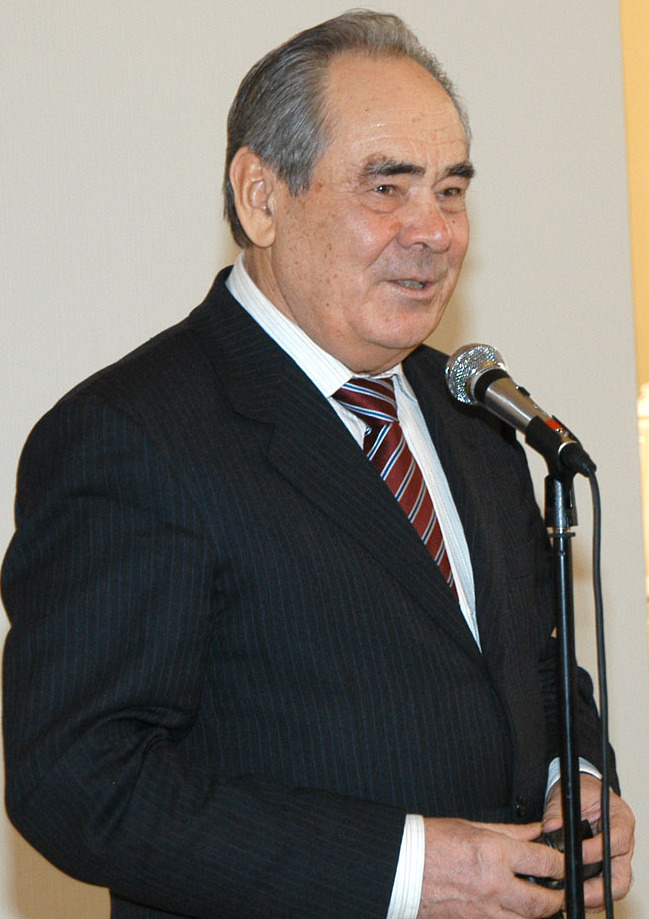 Mintimer Shaimiev.